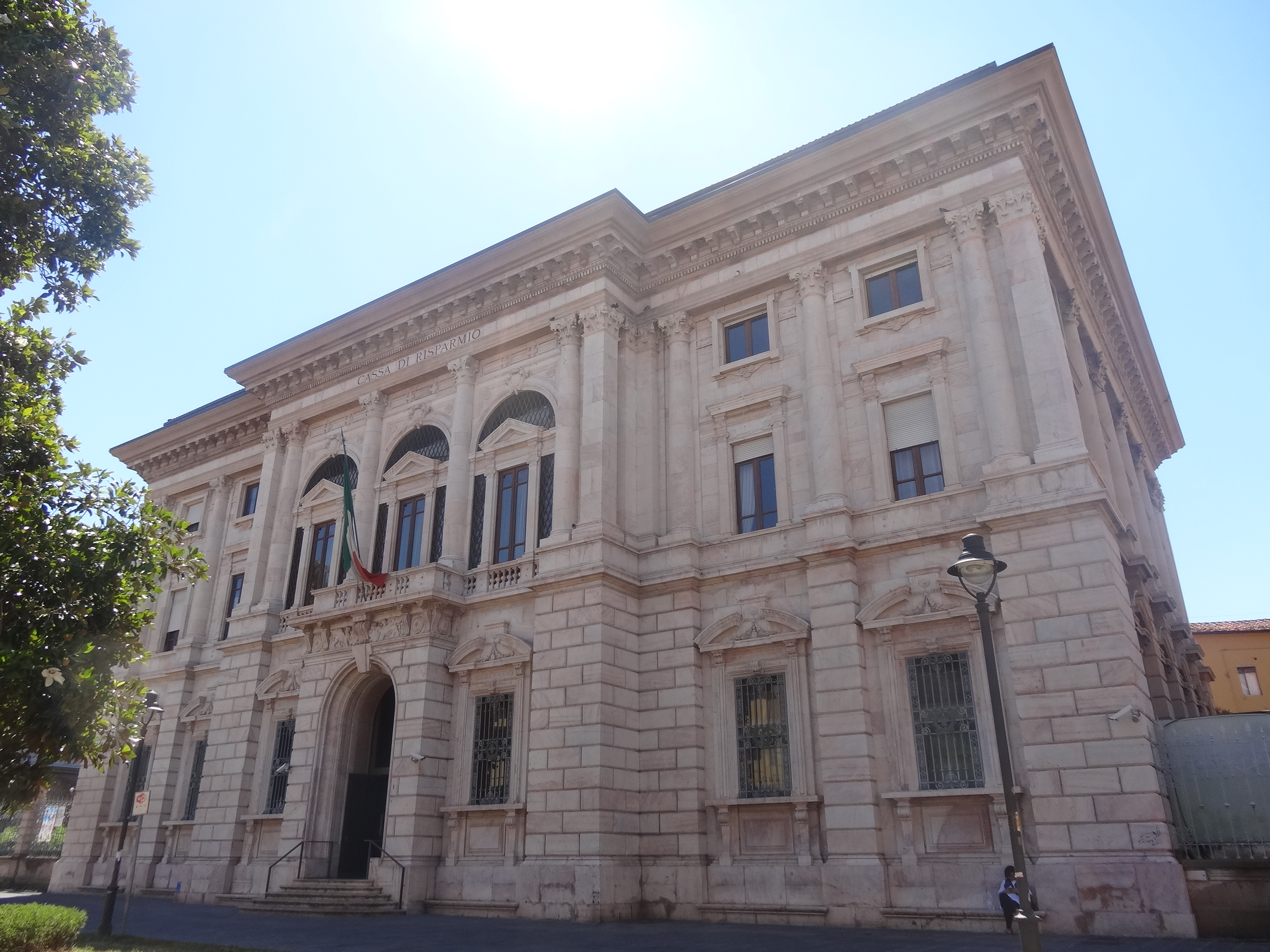 2016 Palazzo della Cassa di Risparmio di Pisa - Piazza Dante, Pisa